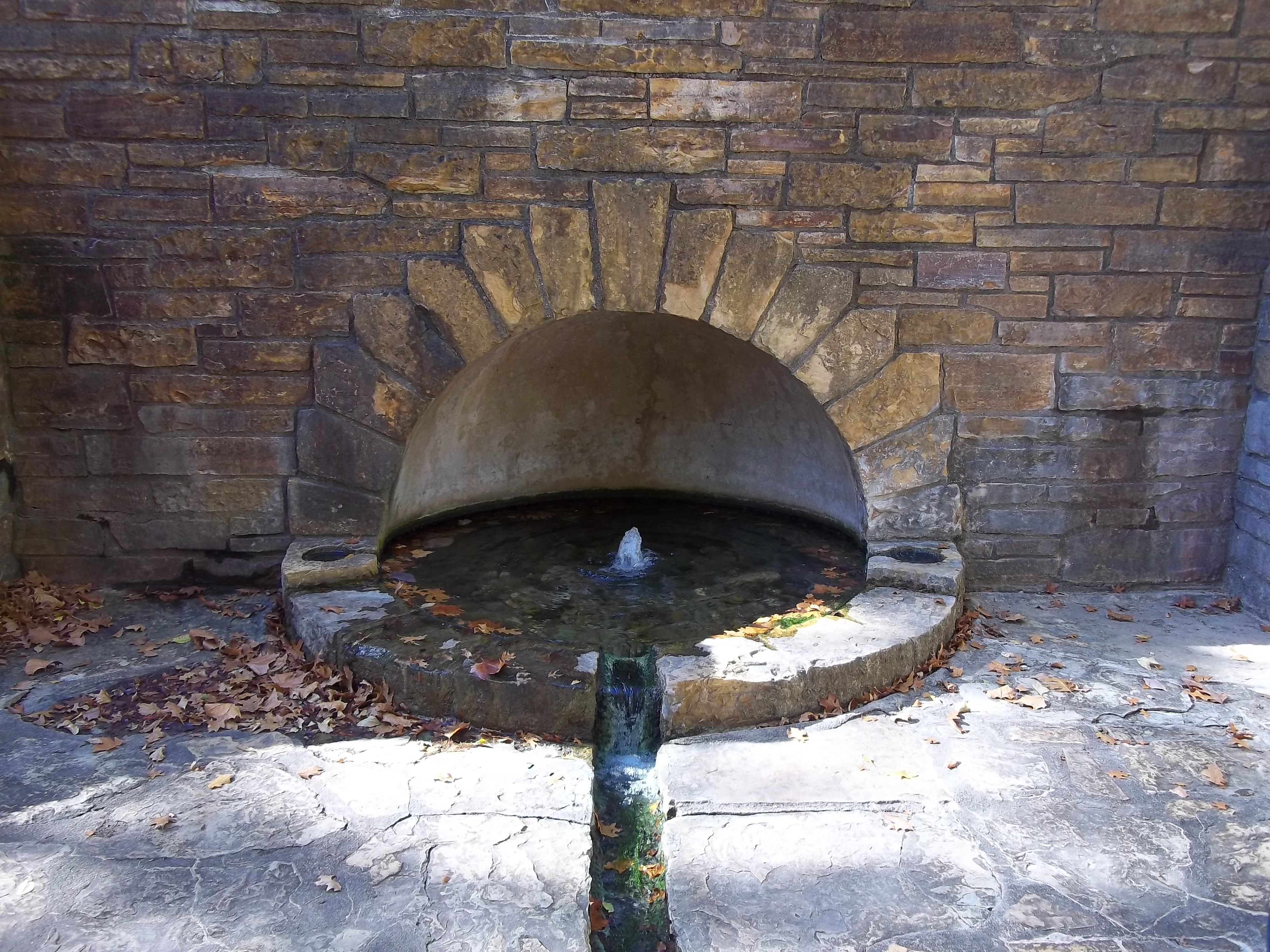 Hillside Spring located within Chickasaw National Recreation Area